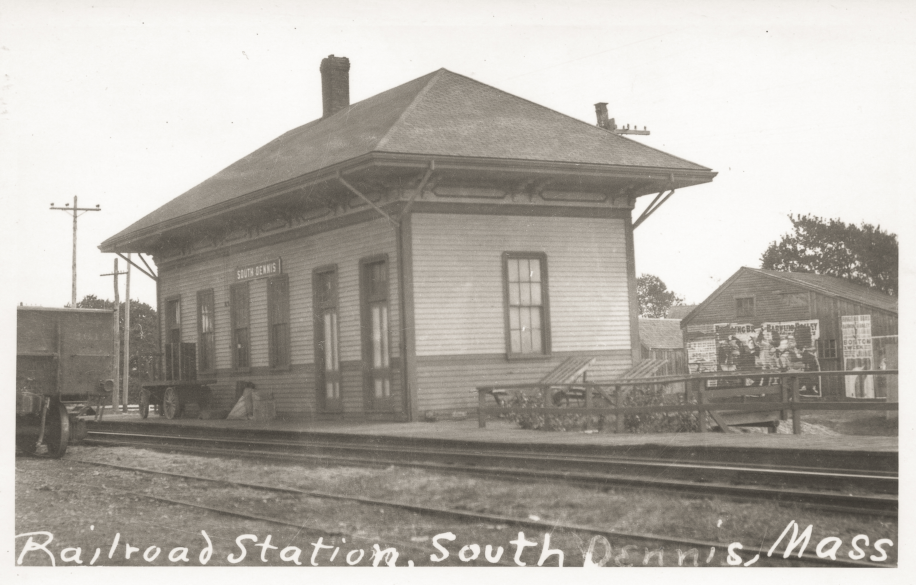 An image of former South Dennis, Massachusetts train station on Cape Cod.